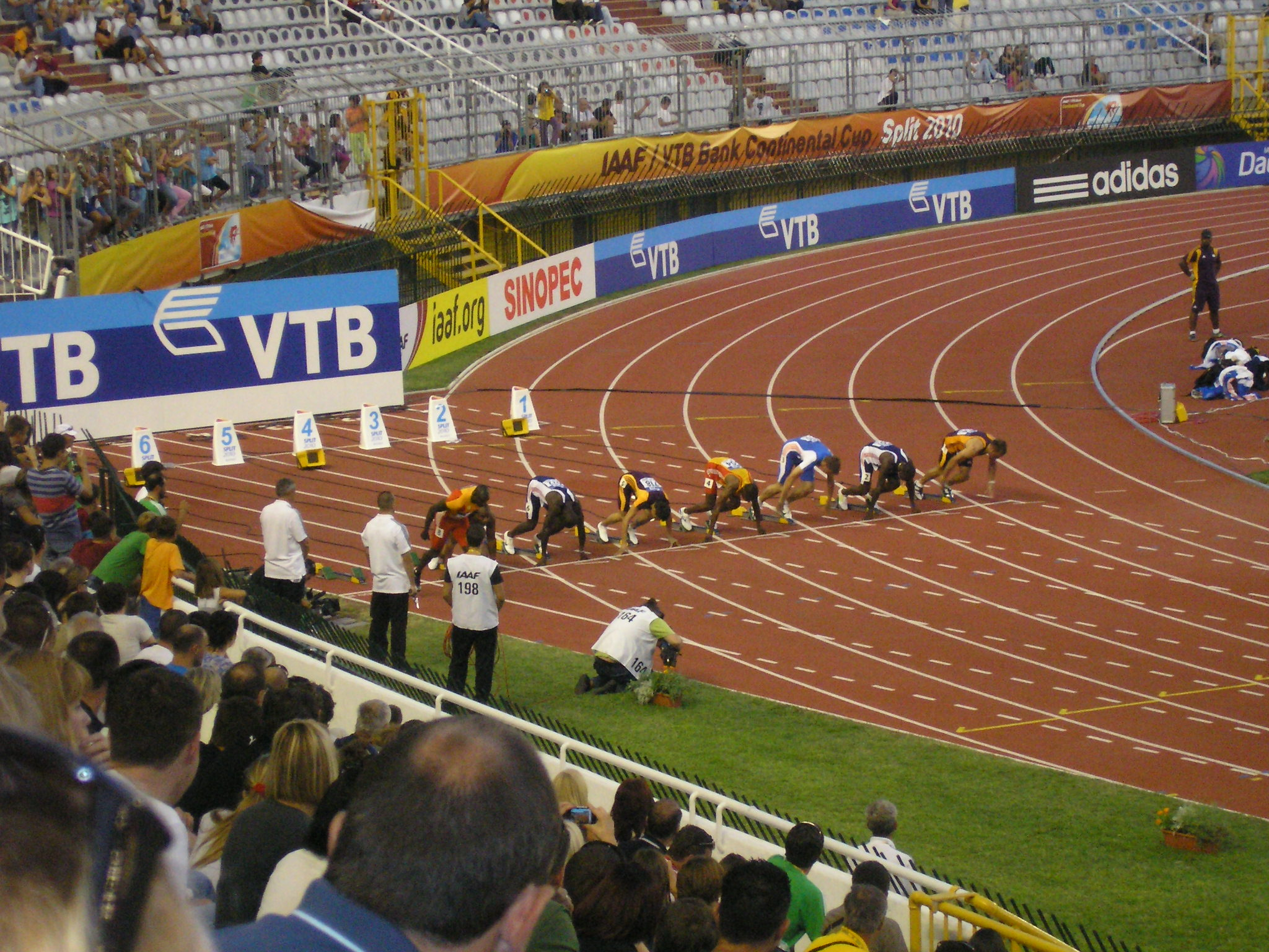 100 metres race start (men)